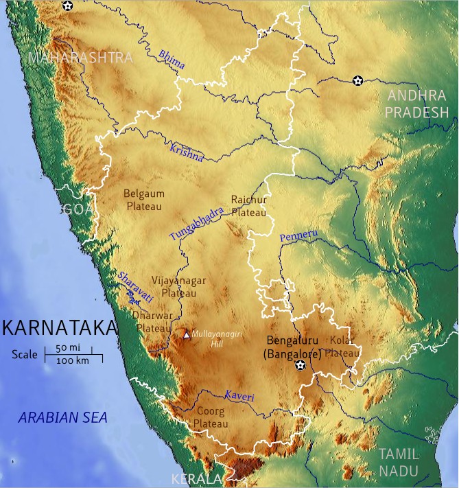 Topographic map of Karnataka, India